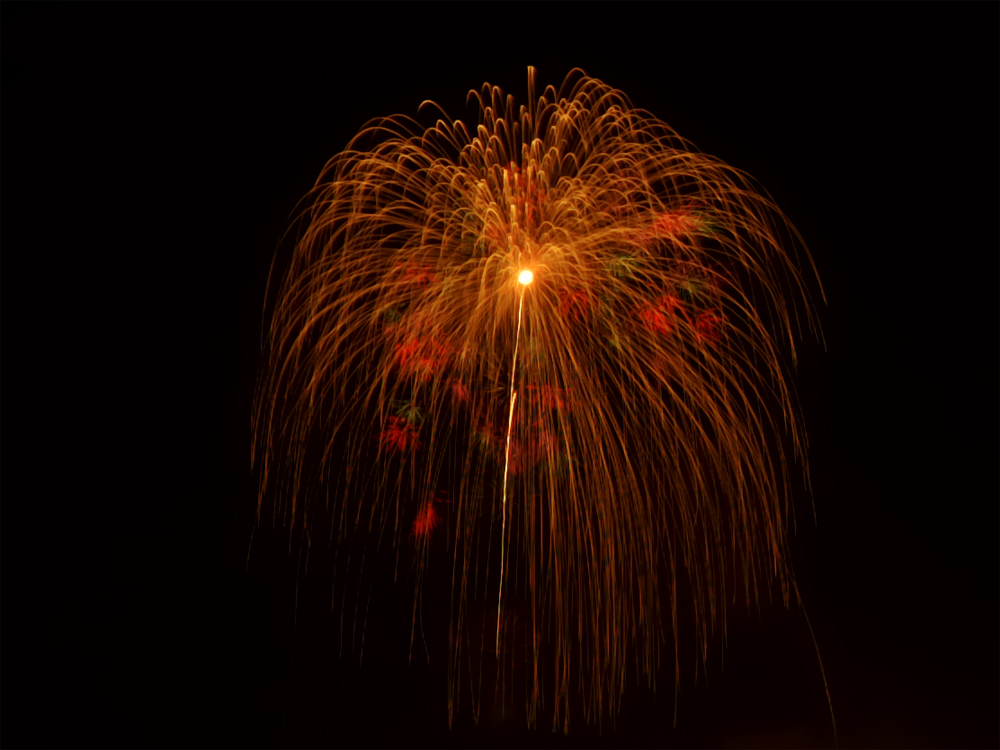 Fireworks of Katakai Festival, 3-shaku dama.